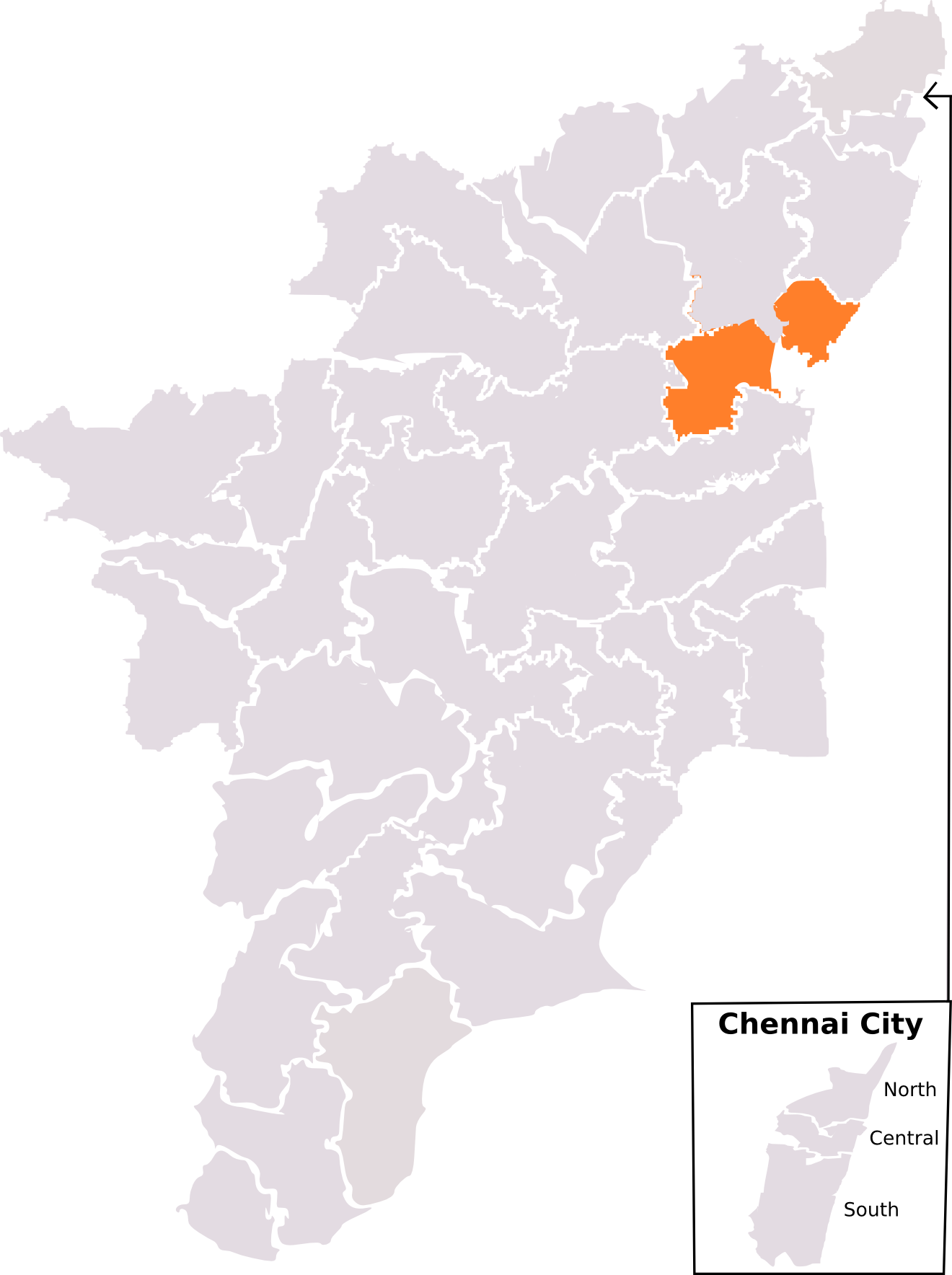 Lok Sabha Election map labeling each constituency for individual pages for Tamil Nadu after delimitation starting 2009 election. Map is based on ECI drawn map from